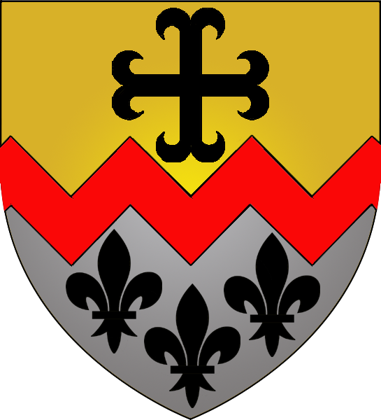 Coat of arms of the municipality of Bettendorf, Luxembourg